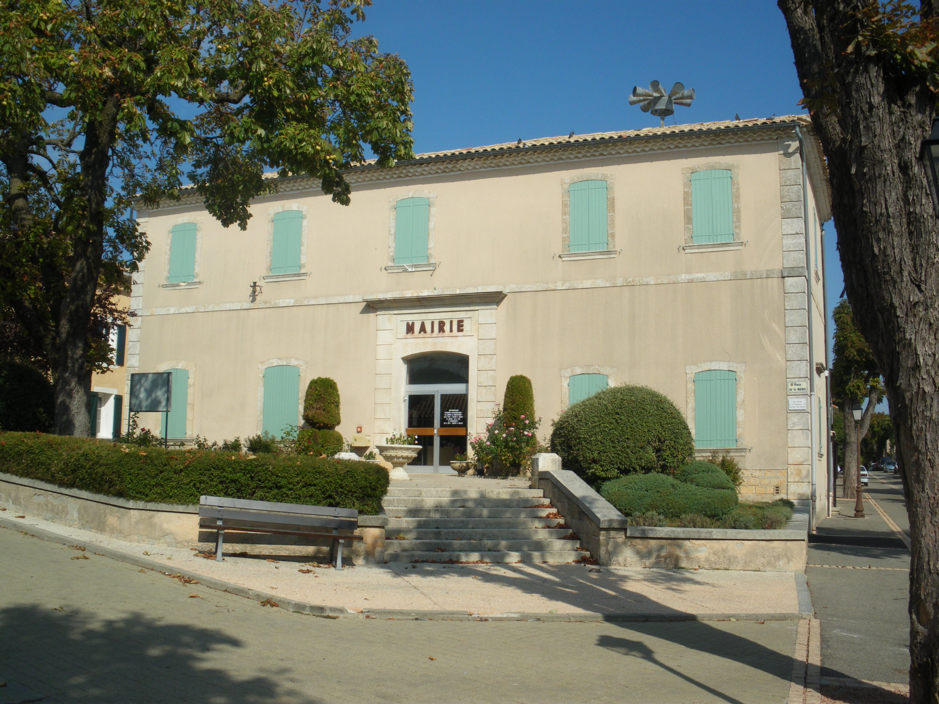 Town hall of Saint Christol, Vaucluse, France